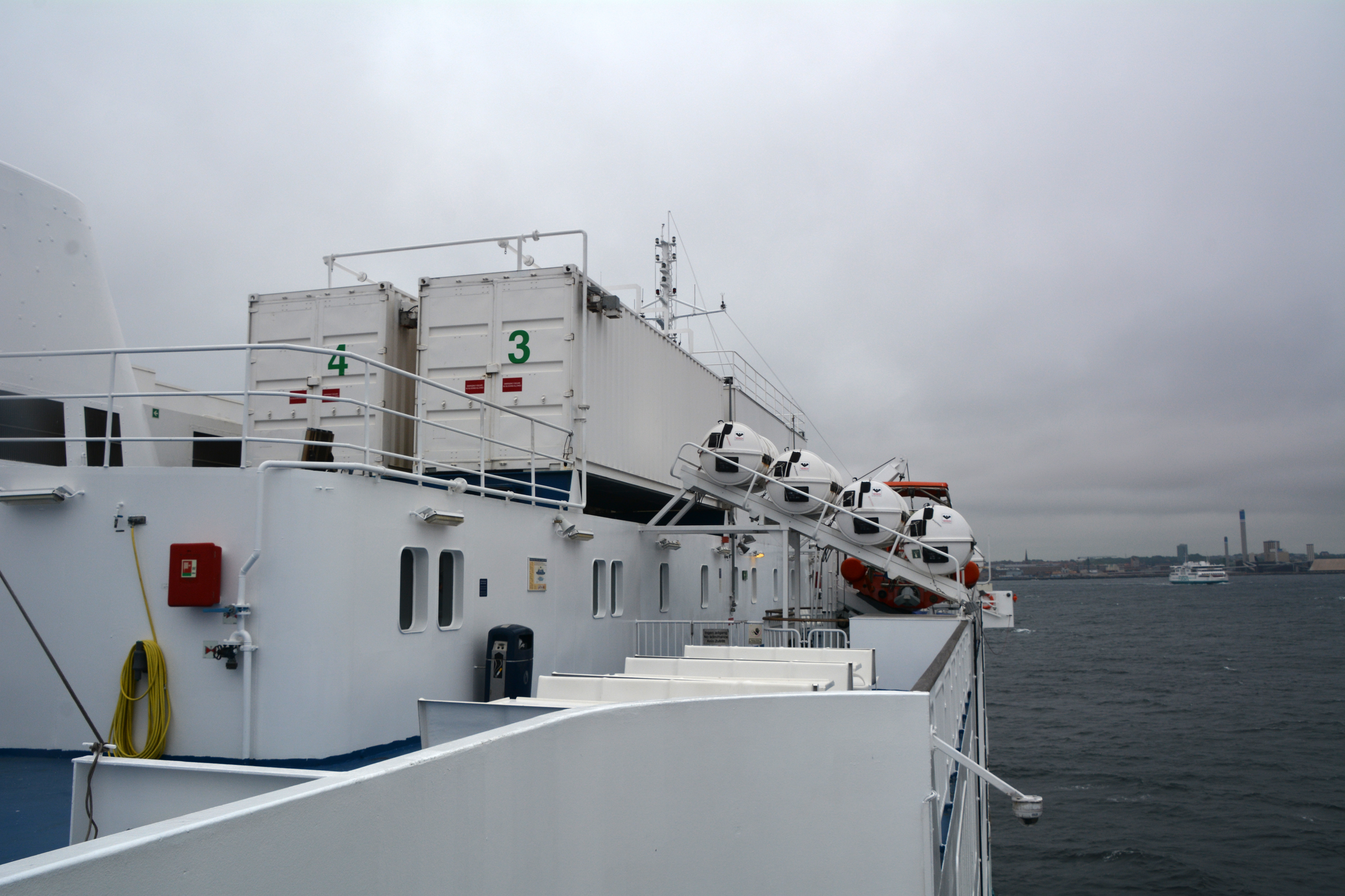 Battery containers on MS Tycho Brahe, Helsingborg harbour in the background